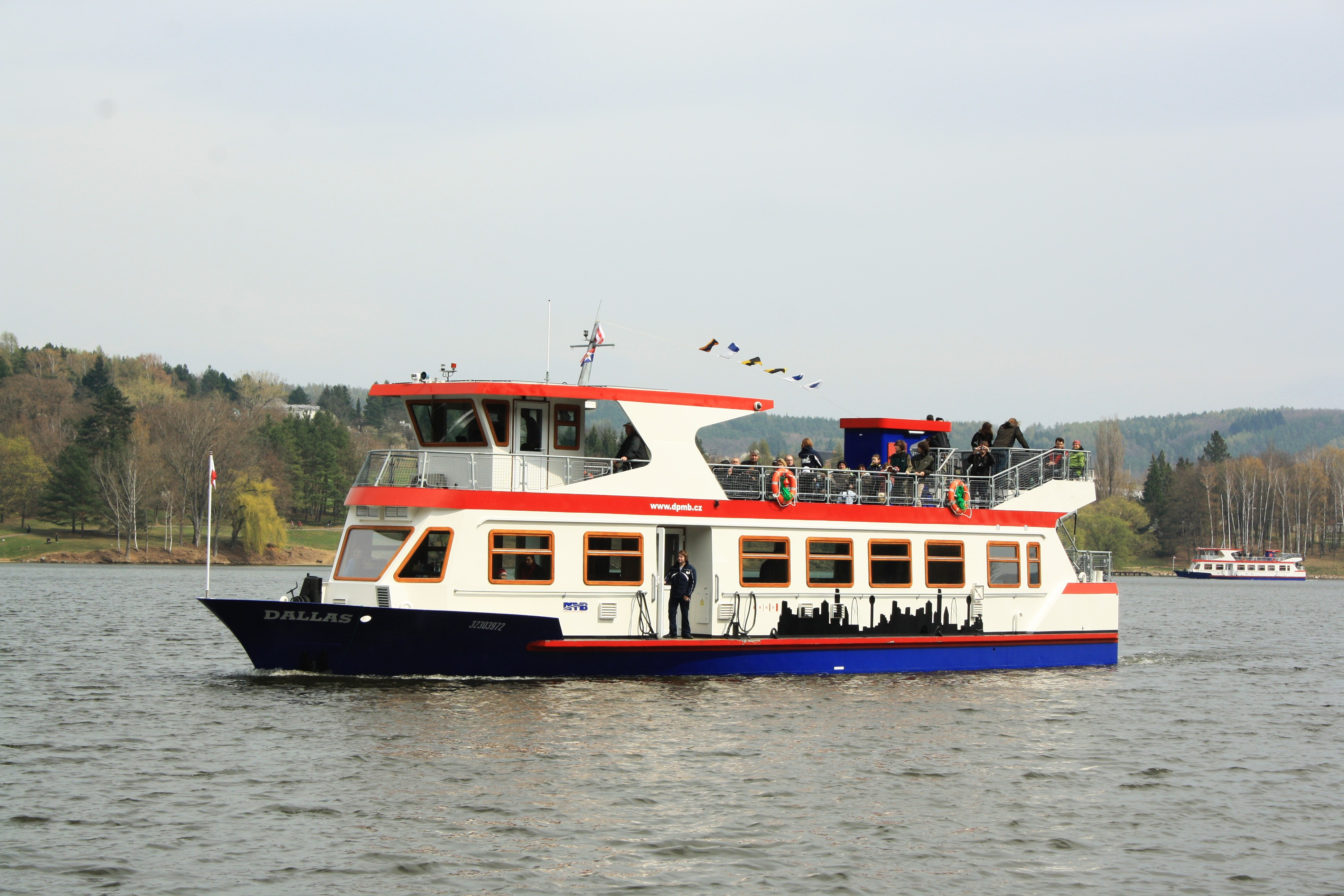 Dallas ship at Brno Reservoir, Brno, Czech Republic This photograph was taken with a DSLR from WMCZ's Camera grant.